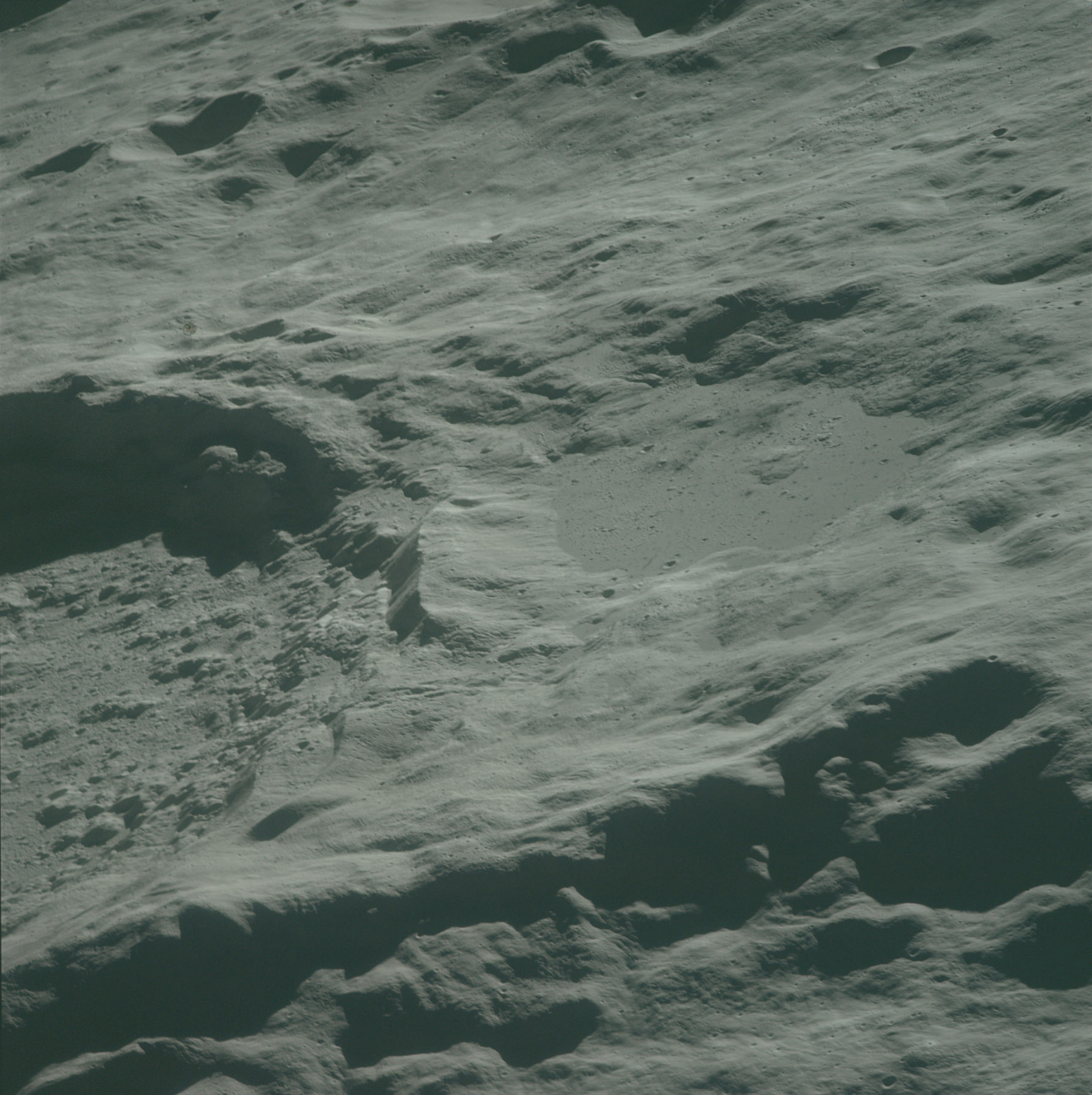 The pool north of King crater, on the moon. This is Figure 155 of Apollo Over the Moon (NASA SP-362, 1978), which has the following caption: The Apollo 16 astronauts captured this spectacular view of the large dark "pool" on the north flank of the crater King as they approached from the east. The pool (also known as a lake, pond, or playa) is in an old crater swamped by King ejecta. The maximum width of the pool is about 21 km. The peculiar dark material that forms the large pool and also coats adjacent hills was first discovered on Apollo 10, and was later seen again from Apollo 14. The most exciting part of the discovery had to wait until the mapping and panoramic cameras of Apollo 16 showed that this material contains some of the freshest and most spectacular flow structures on the Moon. These structures, some of which are seen in the following figures, show that the material behaved like lava. The material is very similar in appearance to that filling parts of the floor of King. -K.A.H.